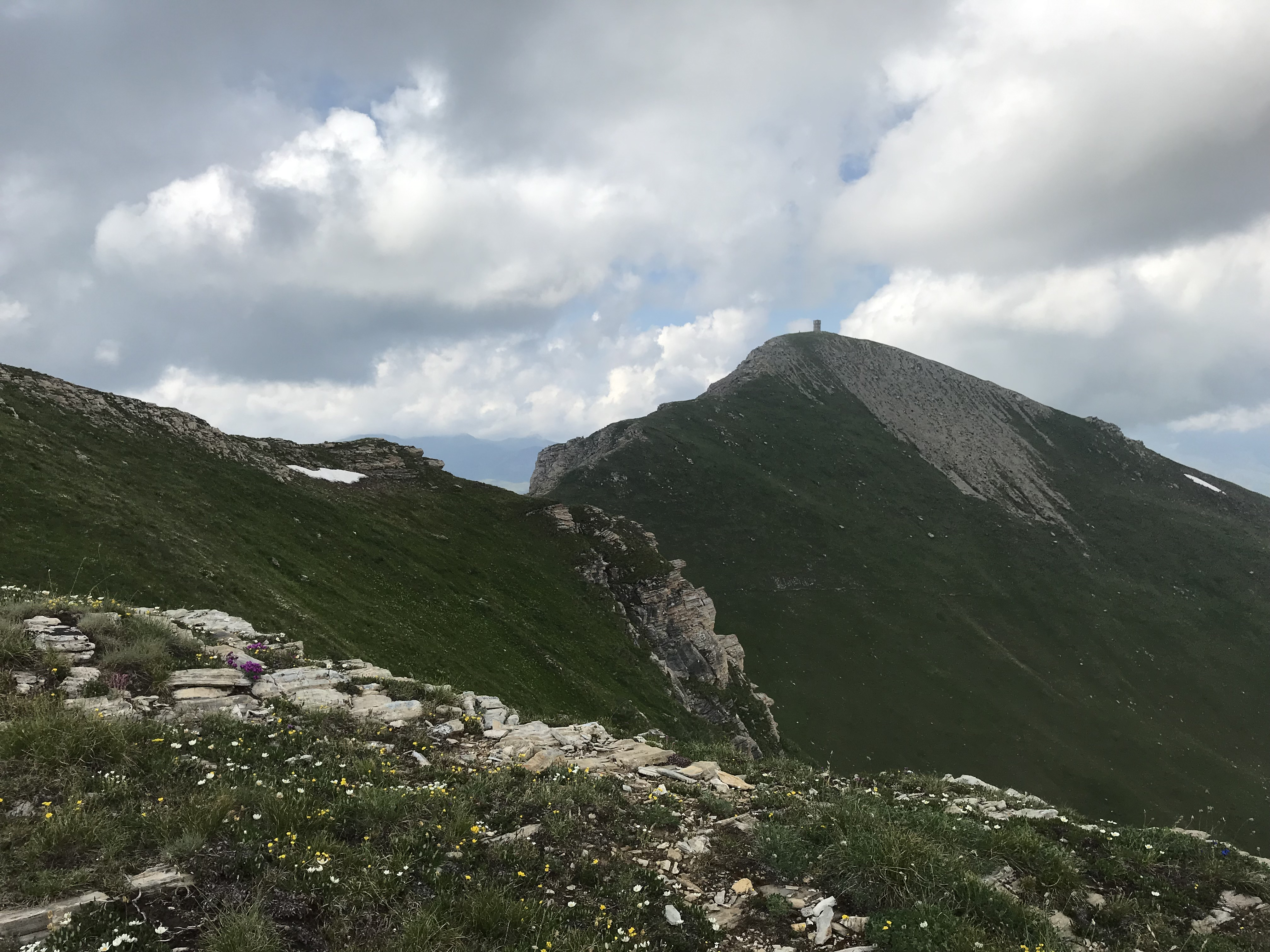 View on Titov Vrv summit from Small Turk summit